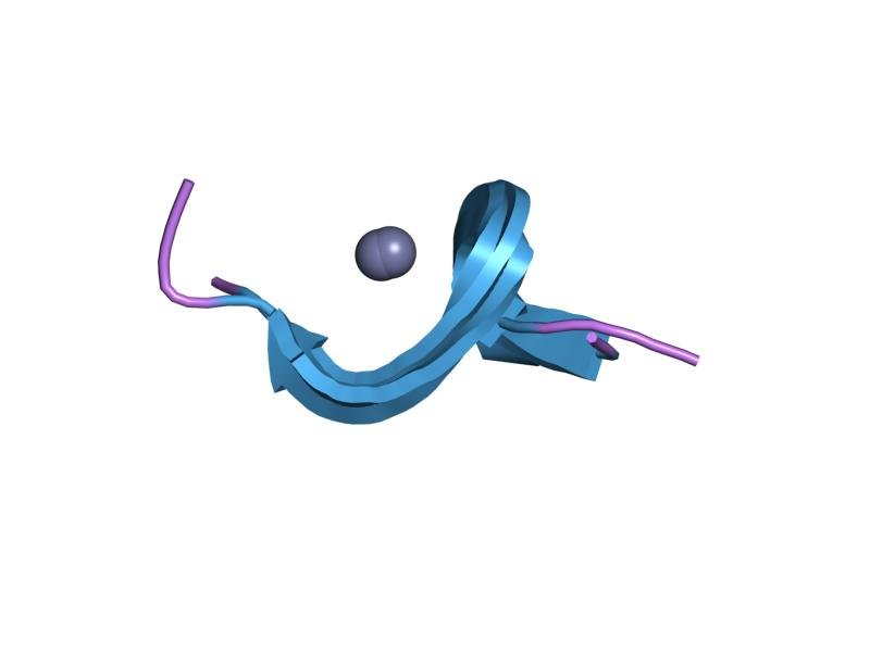 Cartoon representation of the molecular structure of protein registered with 1ncp code.